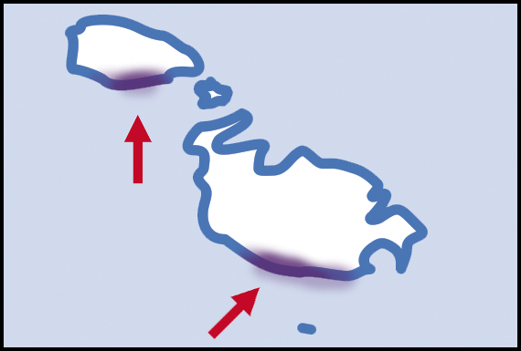 Xerocrassa gharlapsi (Beckmann, 1987). Distribution in Europe, scientific state of knowledge of 2012. Source description in English. Light colour indicated rare occurrences or regions where the species could eventually be expected to occur. Dark colour indicated relatively reliable occurrences, as well as regions where the species was expected to occur, and where the species was not known to be extremely rare. Dark colour indications were not necessarily based on published records. Species summary in AnimalBase